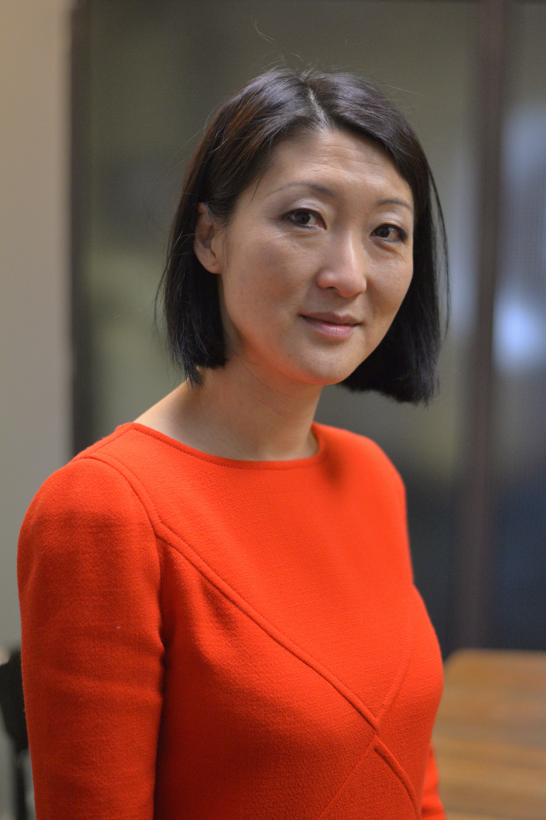 Fleur Pellerin, then Minister of Culture and Communications at Angoulême International Comics Festival in 2015.